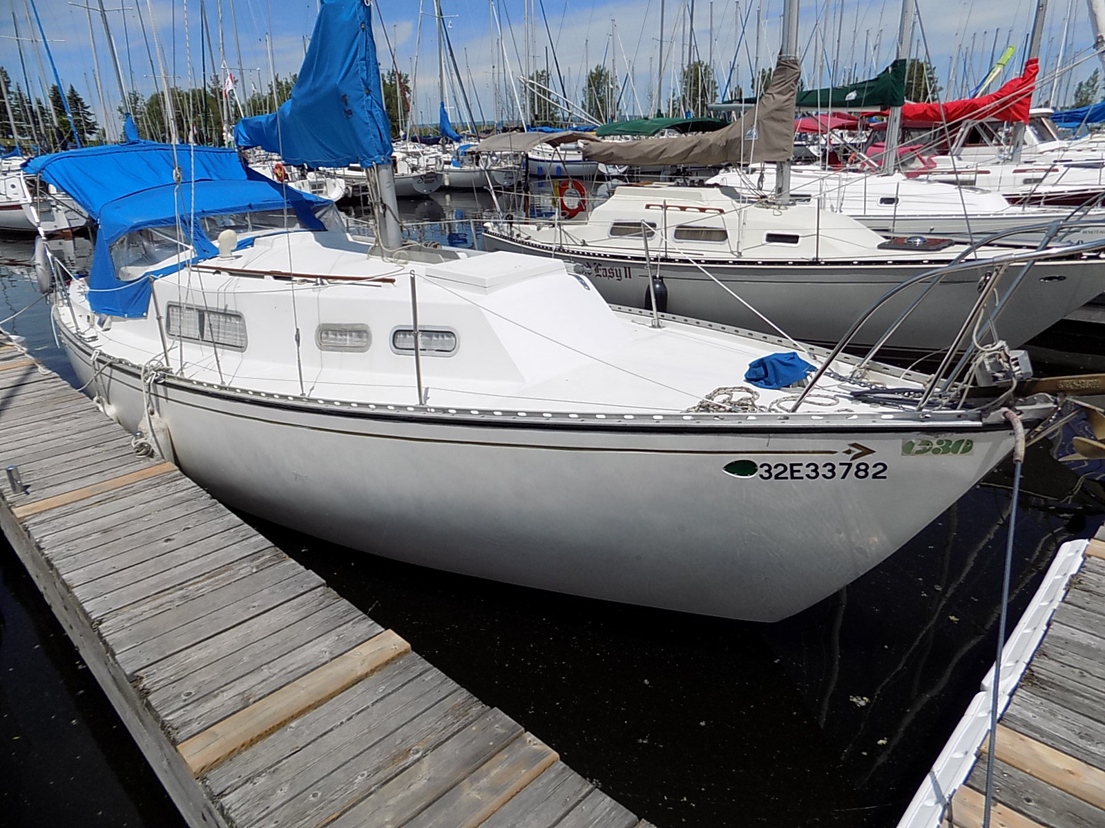 A Grampian 30 sailboat named Mistress.